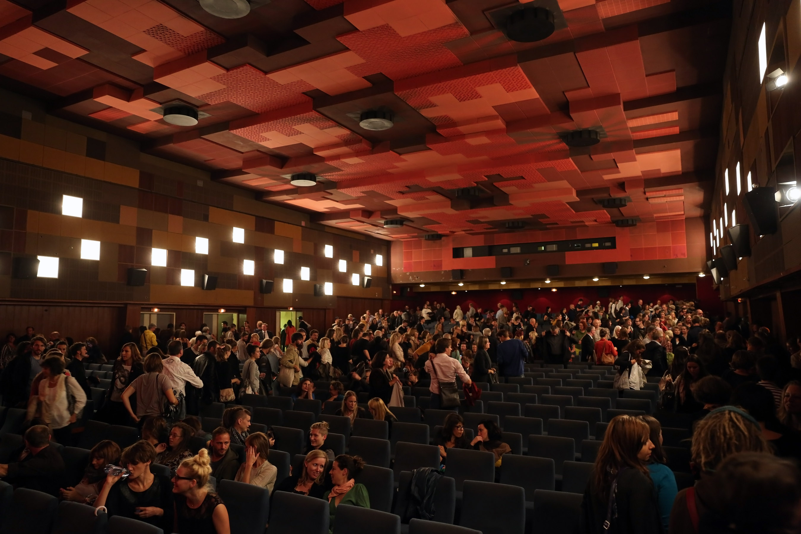 After the Viennese premiere of the film Talea at Gartenbaukino.